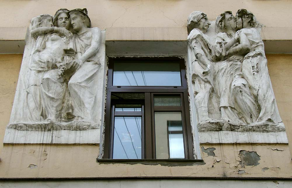 Closeup of statues, Plotnikov Lane, Moscow, Russia. Believe it or not, this building used to be a brothel, and a well-appointed one...